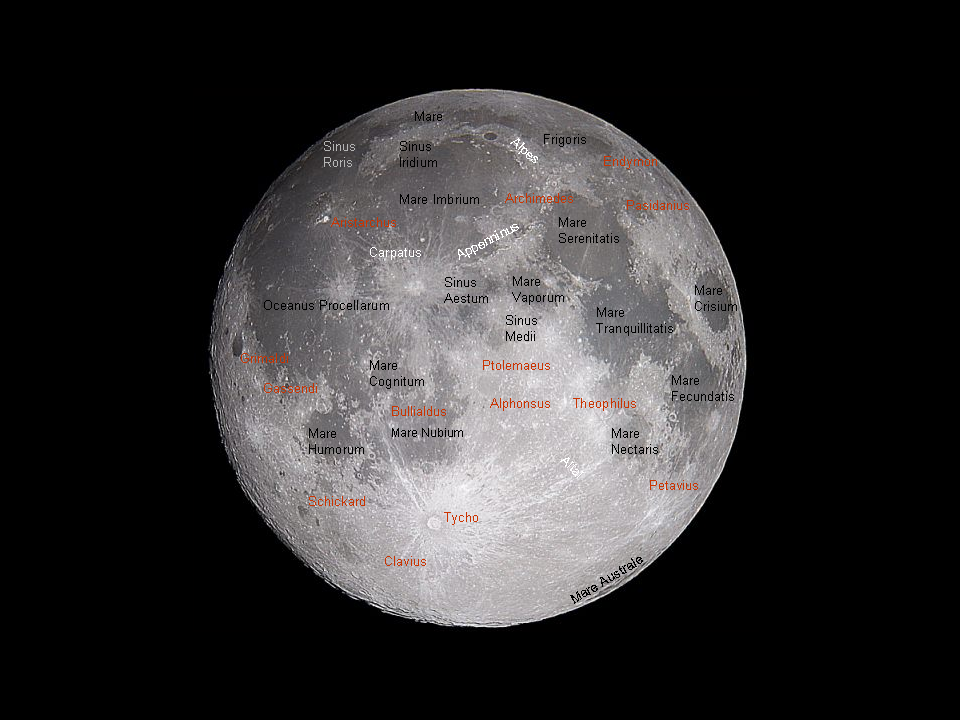 Principals formations of the Moon: seas, mounts and craters.